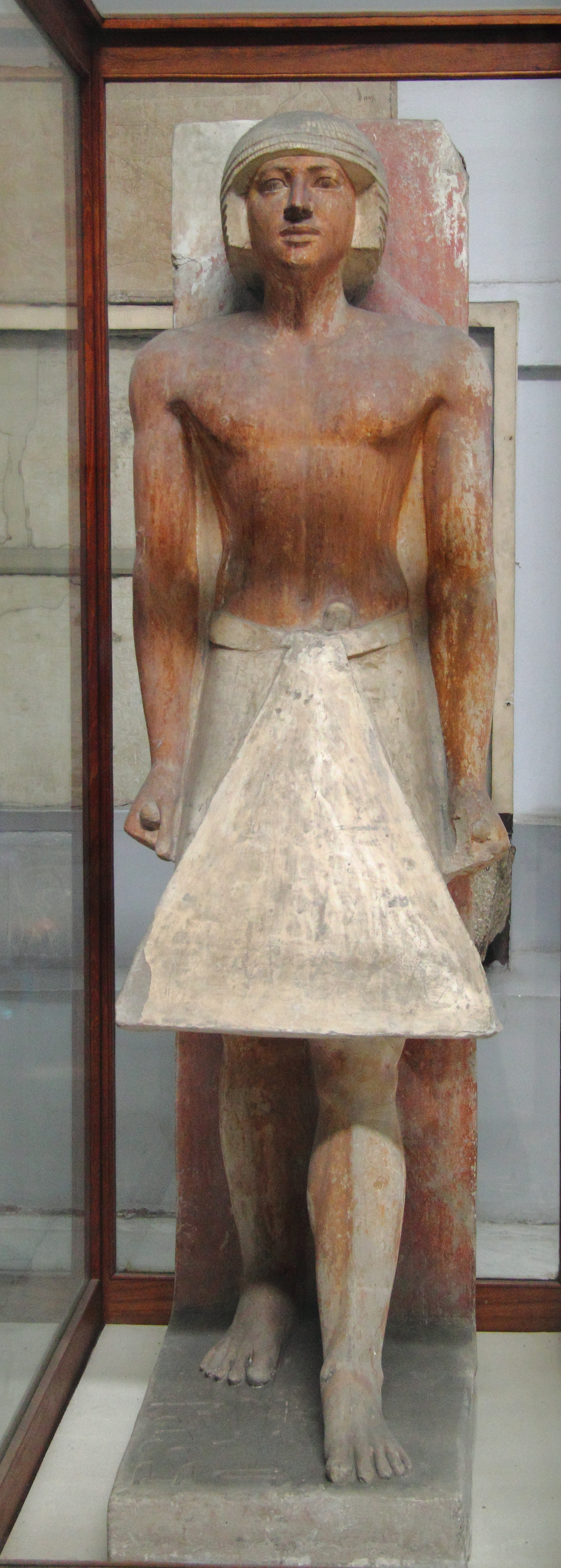 Egyptian Museum, Cairo: statue of the ancient Egyptian official Ti from his tomb in Saqqara, painted limestone, 5th dynasty, Old Kingdom of Egypt